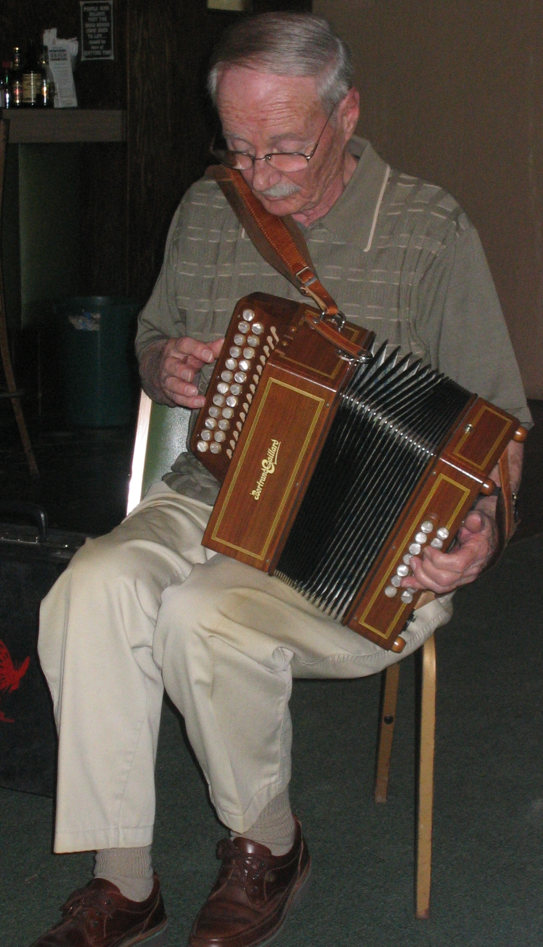 Joe Derrane playing his Bertrand Gaillard diatonic accordion in D/C# tuning